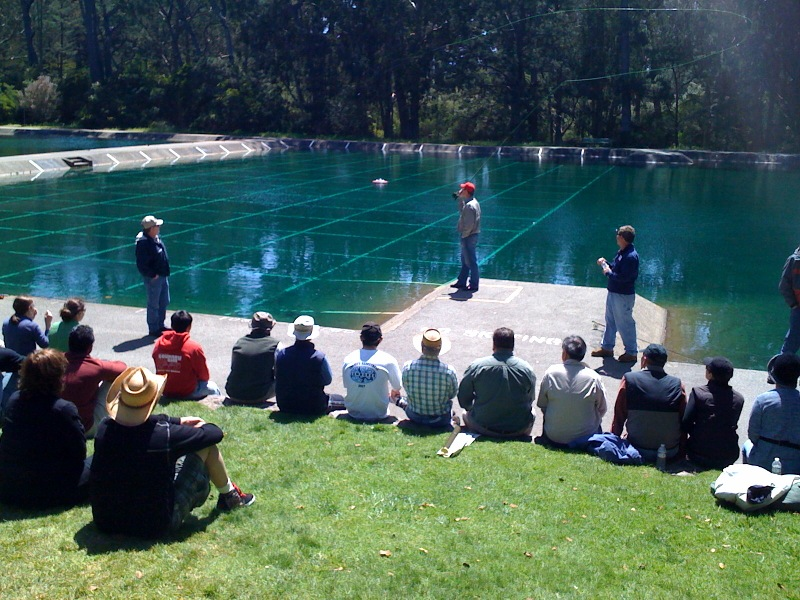 Mel Kreiger giving Fly Casting Lesson at the Golden Gate Angling & Casting Club, San Francisco, California